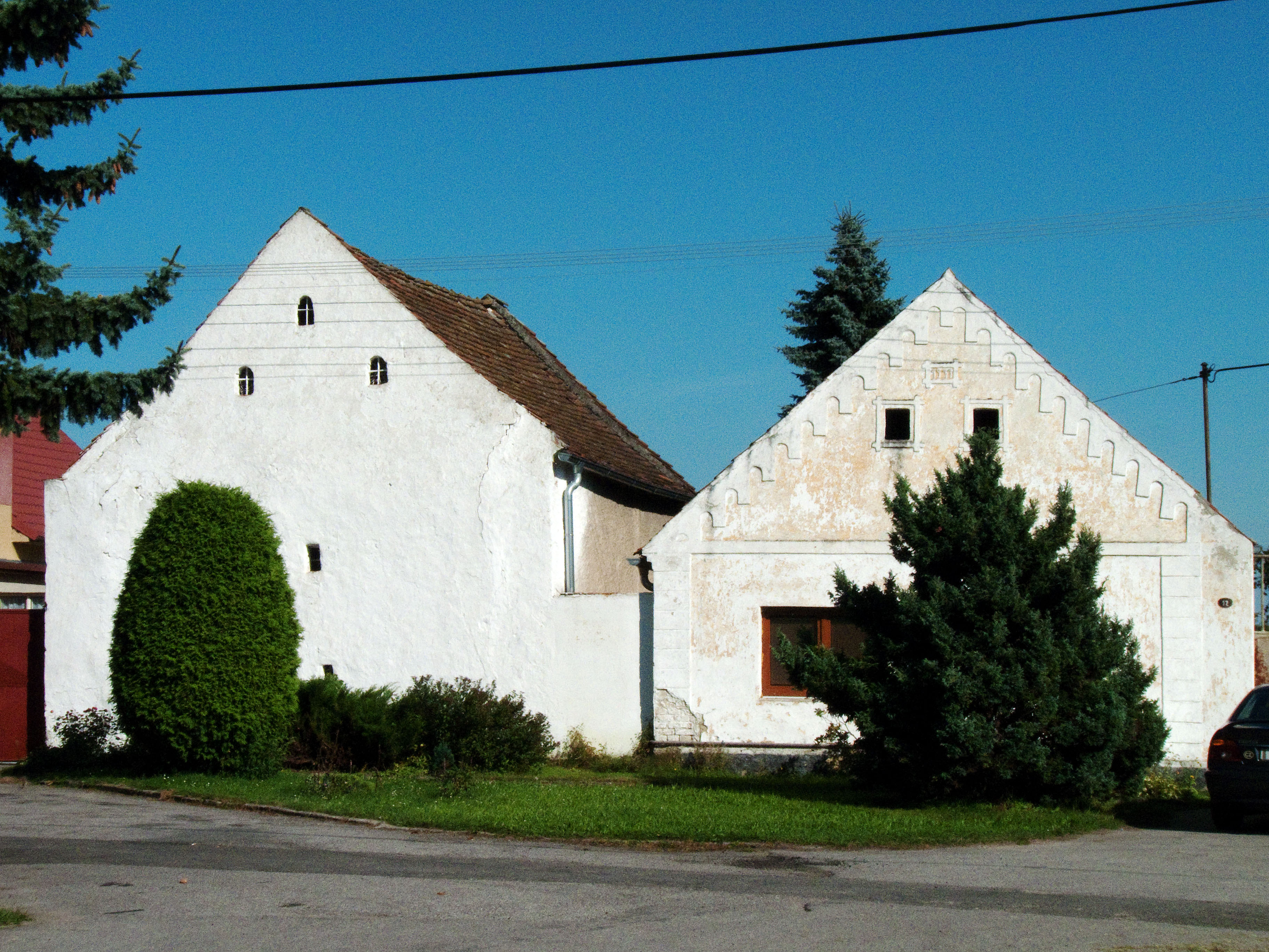 Cottage No 12 in Čejkovice, České Budějovice district, Czech Republic